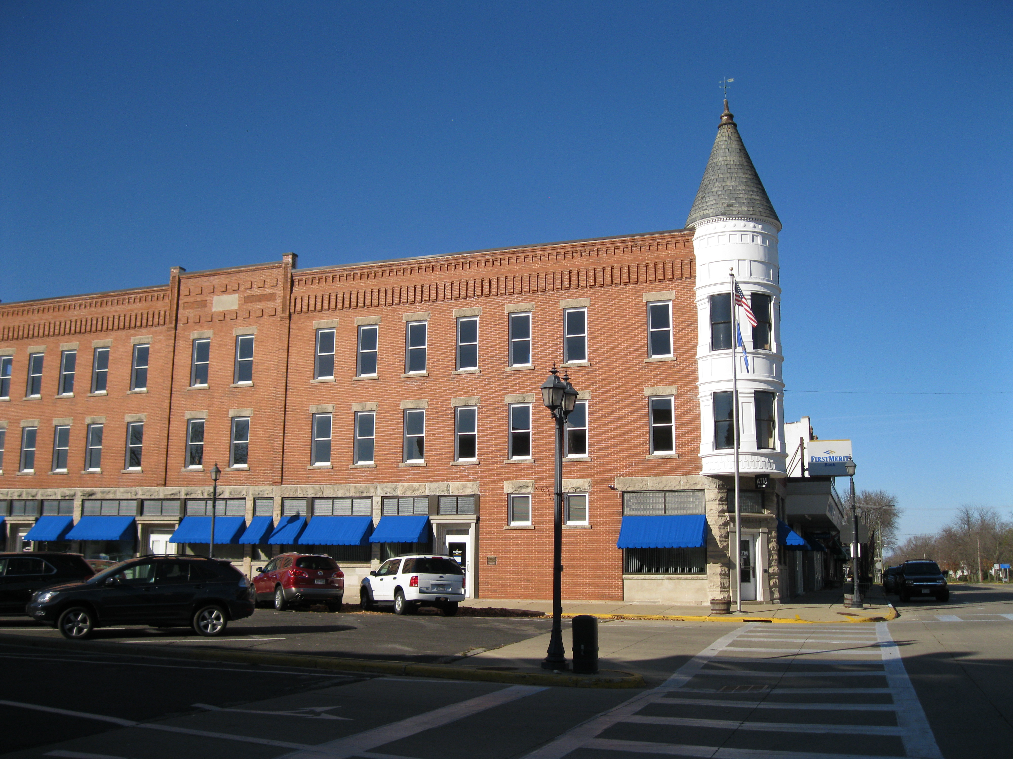 The Laube Building on the north side of Exchange Square in Brodhead, Wisconsin.